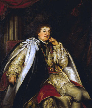 Hugh Percy, 2nd Duke of Northumberland by Thomas Phillips